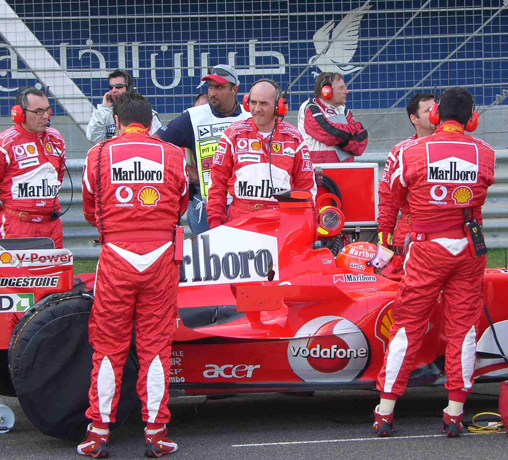 Photo by Sports Fan taken at Bahrain GP 2006